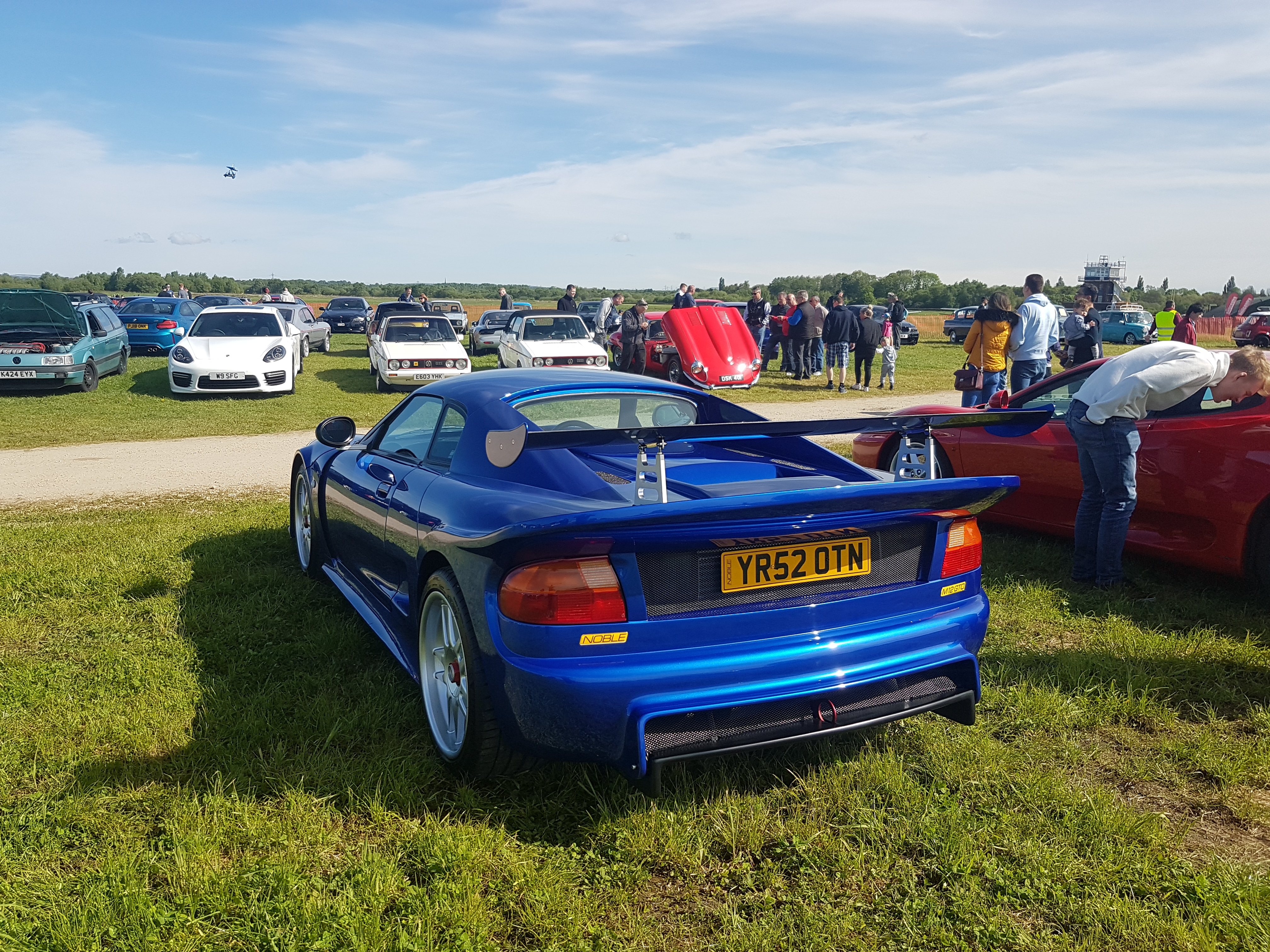 Taken at the manchester cars and coffee event at city airport manchester